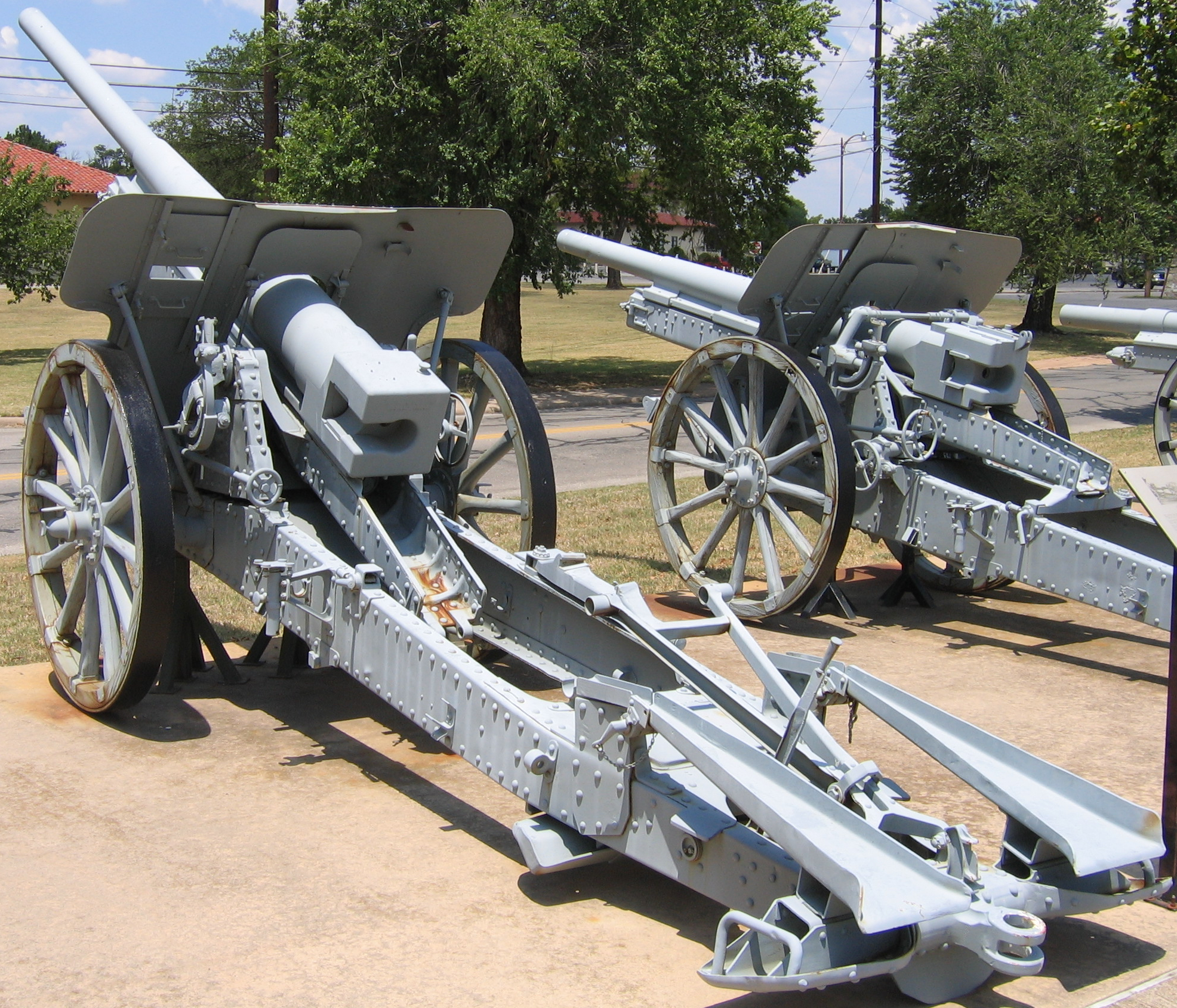 German army 10 cm Kanone 17 (10 cm K 17) field gun (foreground, left). German 10 cm Kanone 14 (background, right). At U.S. Army Field Artillery Museum, Ft. Sill, Oklahoma, USA.